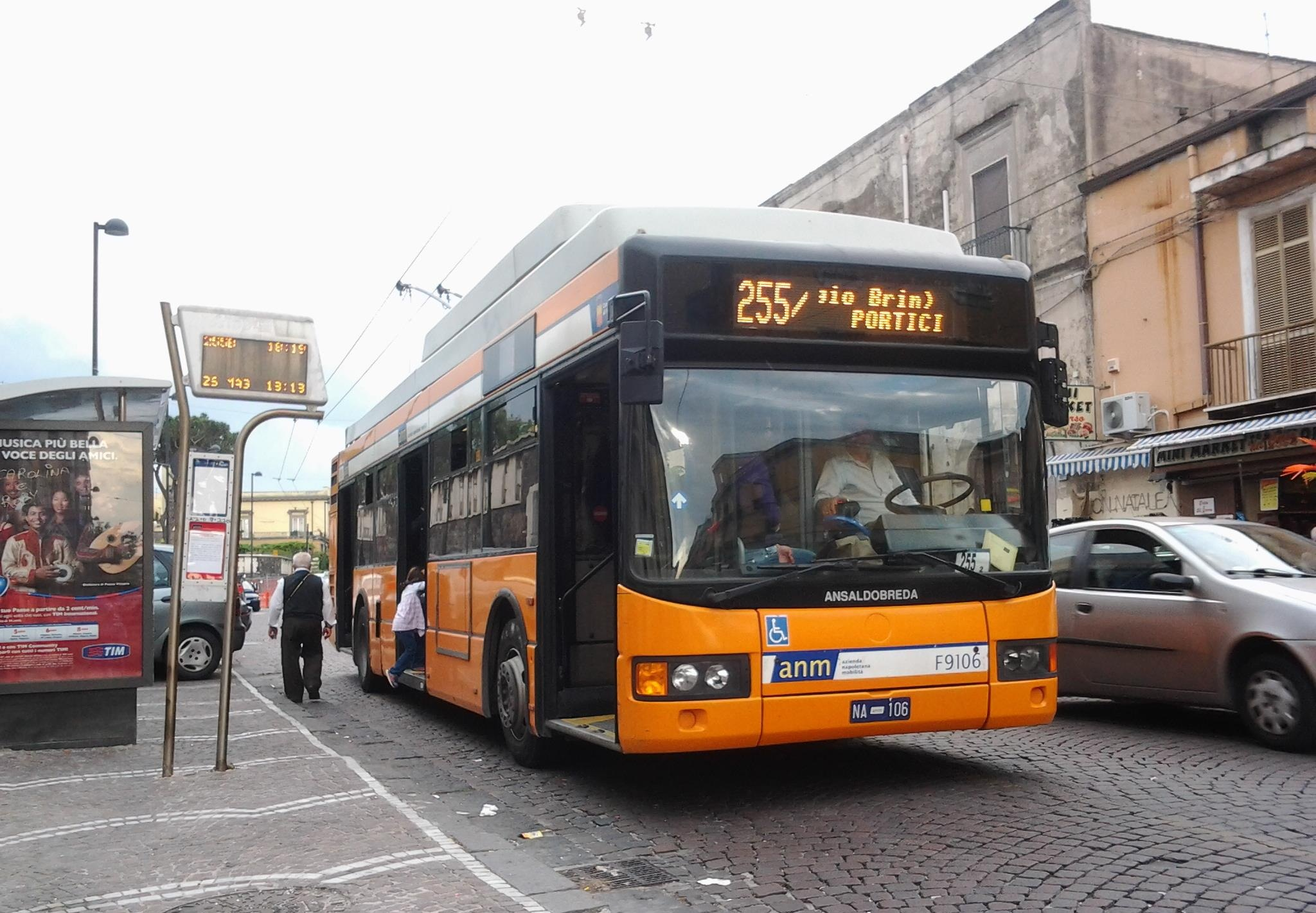 ANM AnsaldoBreda trolleybus F9106 in service on route 255/ (meaning 255-barrata, or 255-barre) in 2012.